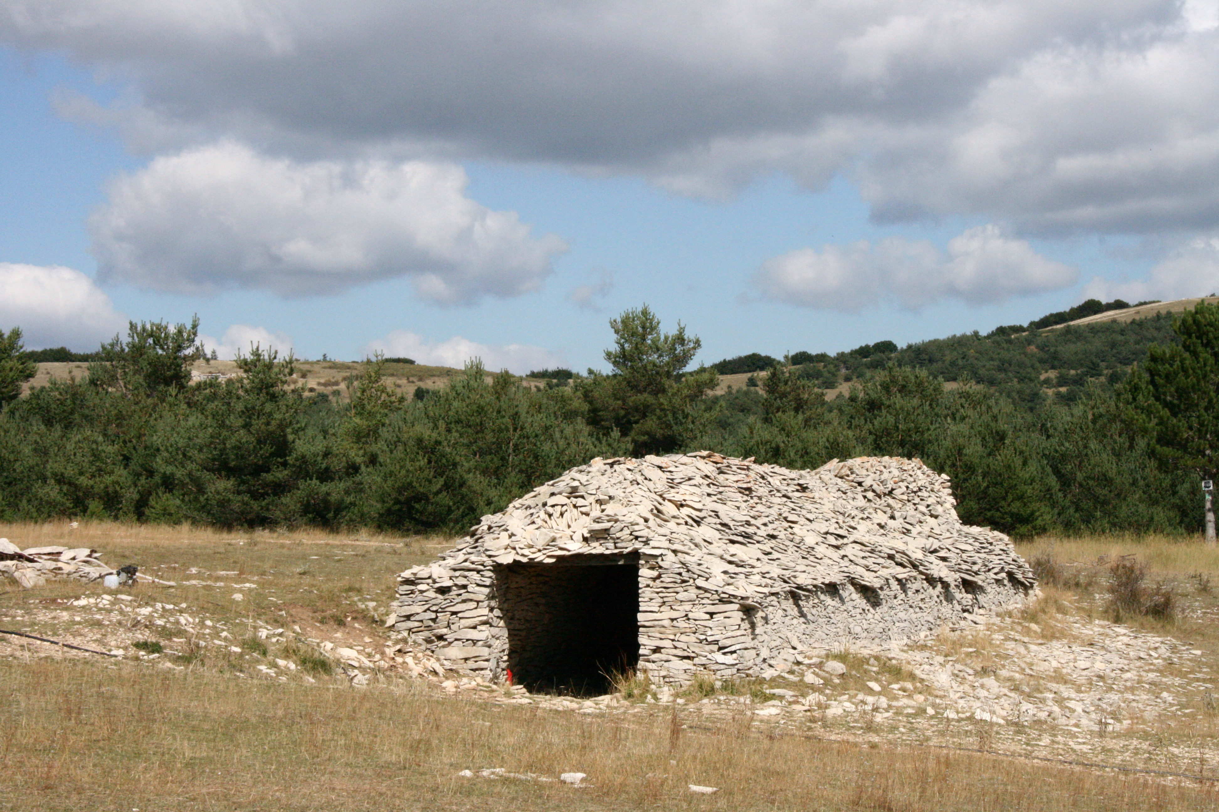 The jas (sheepfold) of the Fraches du Contadour at Redortiers, Alpes-de-Haute-Provence, France (late 19th century, early 20th century). On the façade pediment and roof slopes, the havoc caused by visitors is visible.